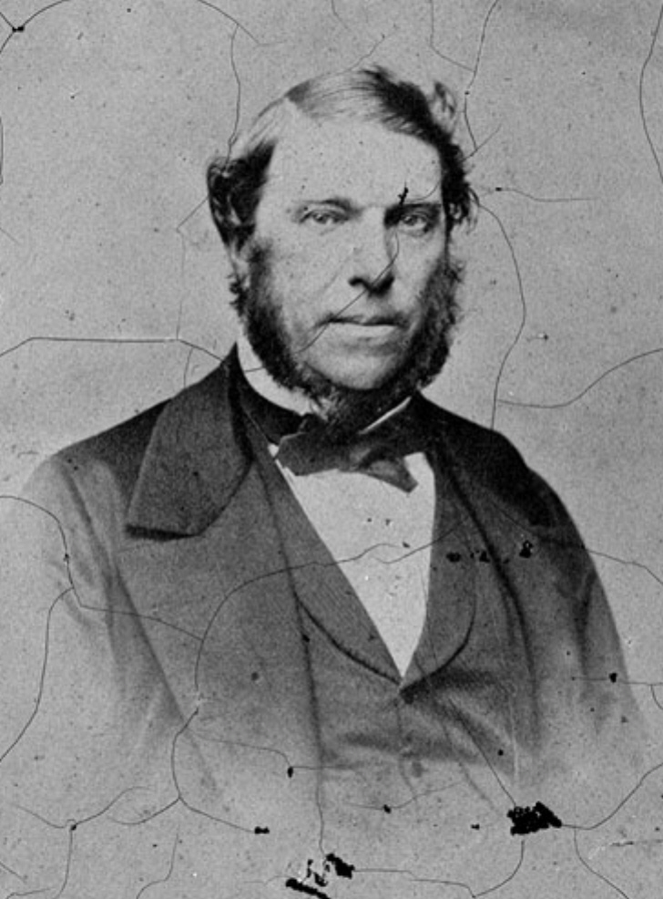 William Woolls (1814—March 14, 1893), Australian botanist